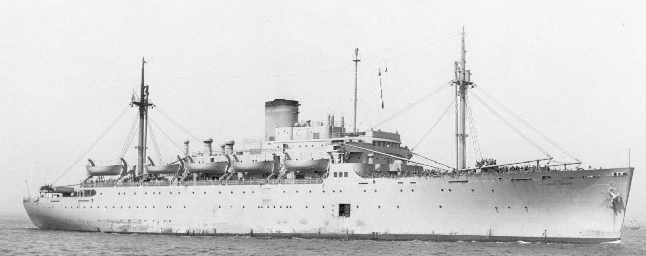 Henry Gibbons (T-AP-183) underway, date and location unknown.